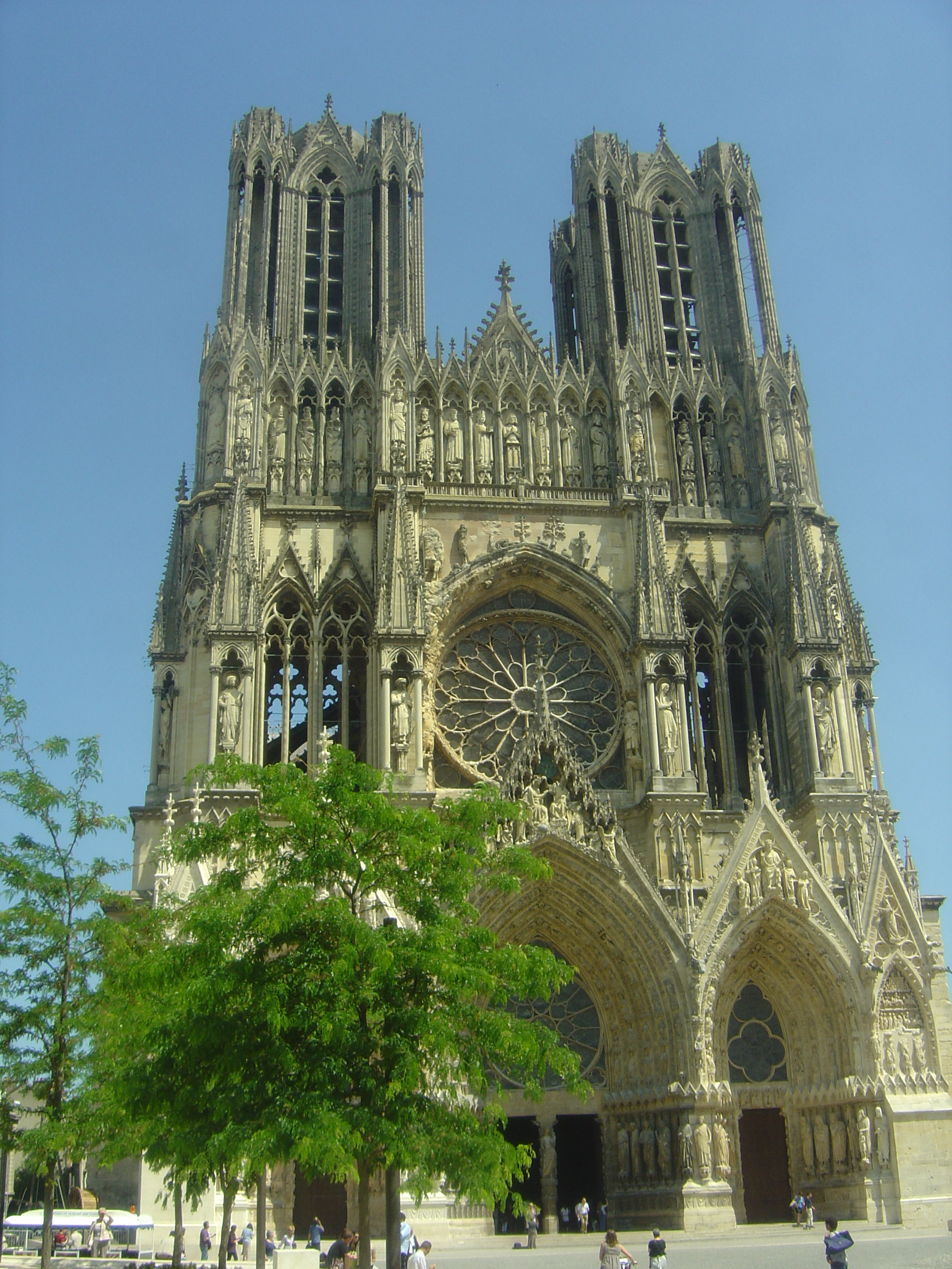 Reims Cathedral, France